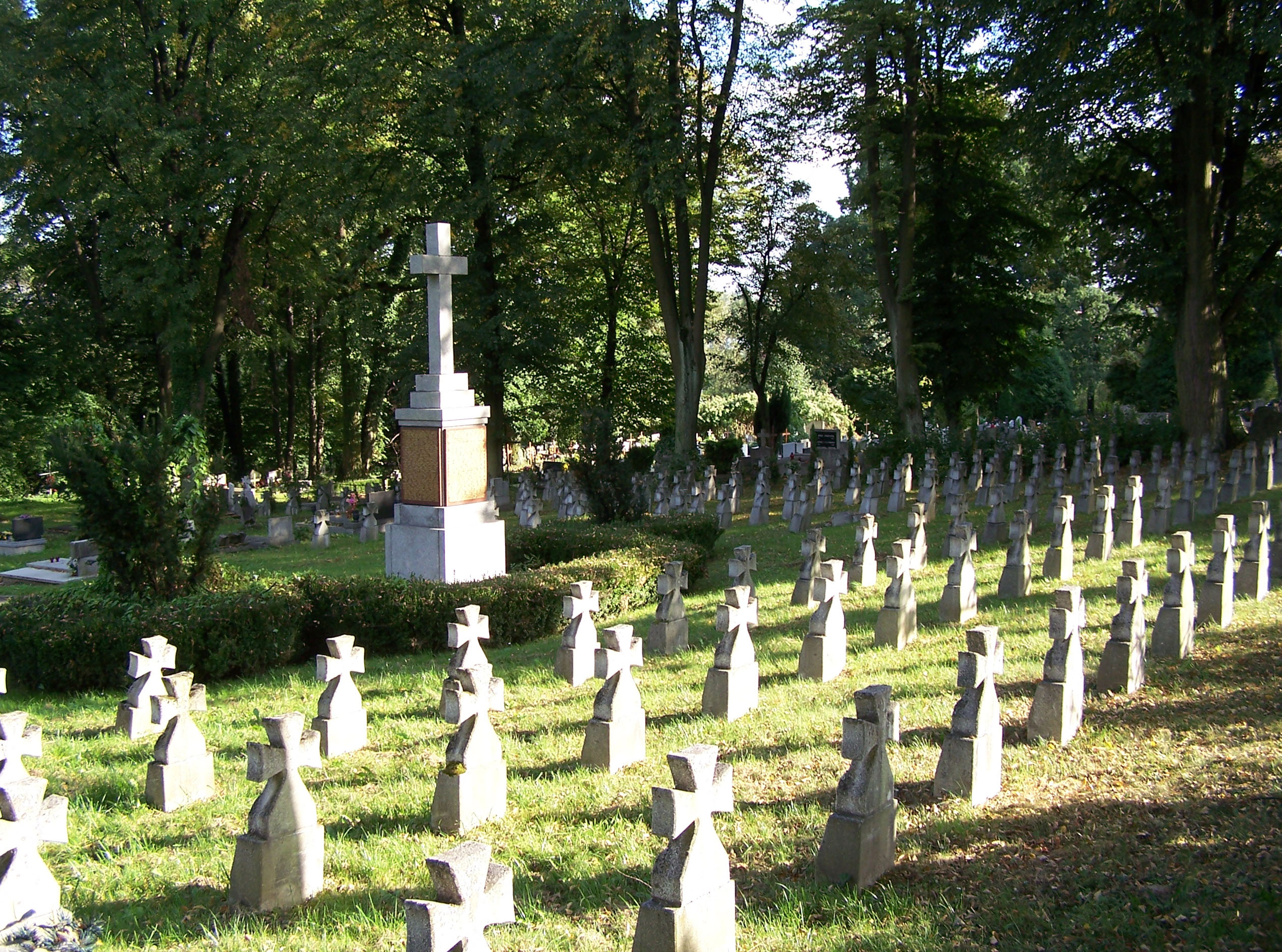 Graves of the fallen soldiers of two World Wars at the Communal Cemetery in Cieszyn, Poland